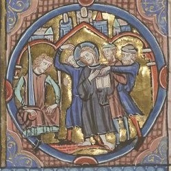 Christ before Pilate, thirteenth-century French illumination from a Bible moralisee